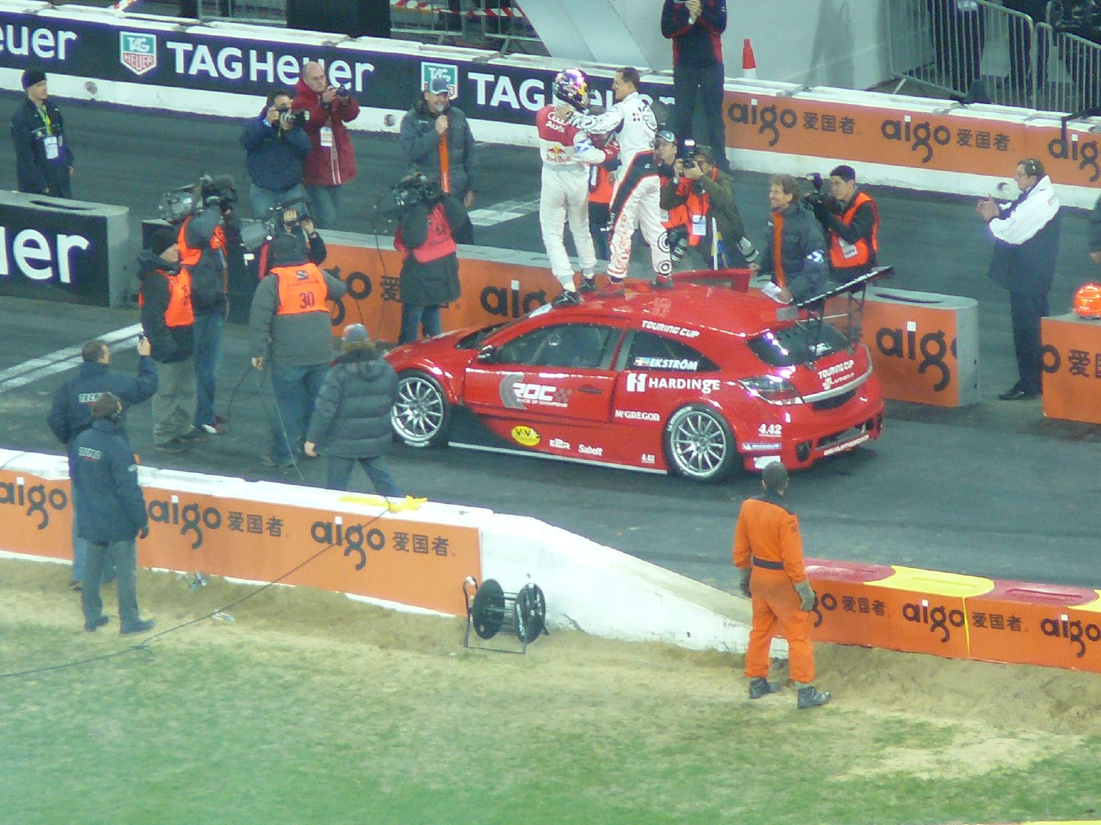 Michael Schumacher congratulates Mattias Ekström at the 2007 Race of Champions at Wembley Stadium. Ekström beat Schumacher in the finals.